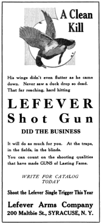 Lefever Shotgun - 1914